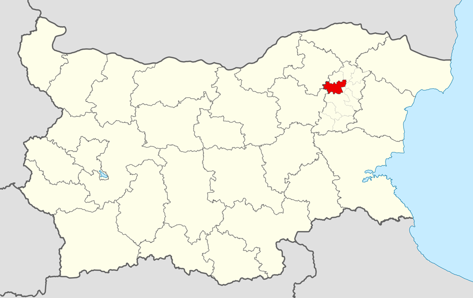 Location map of Hitrino Municipality within Bulgaria and Shumen Province. Equirectangular projection, N/S stretching 130 %. Geographic limits of the map: N: 44.4° N S: 41.1° N W: 22.1° E E: 28.9° E